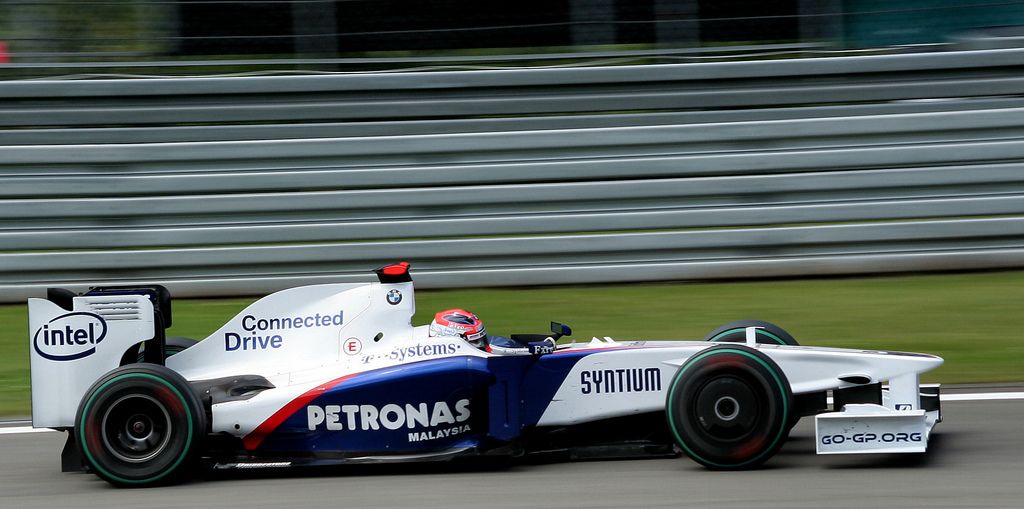 Robert Kubica driving for BMW Sauber at the 2009 German Grand Prix.